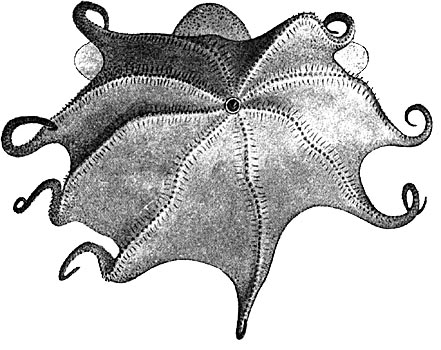 Drawing of the octopus Grimpoteuthis megaptera, showing its beak, arms, and web.